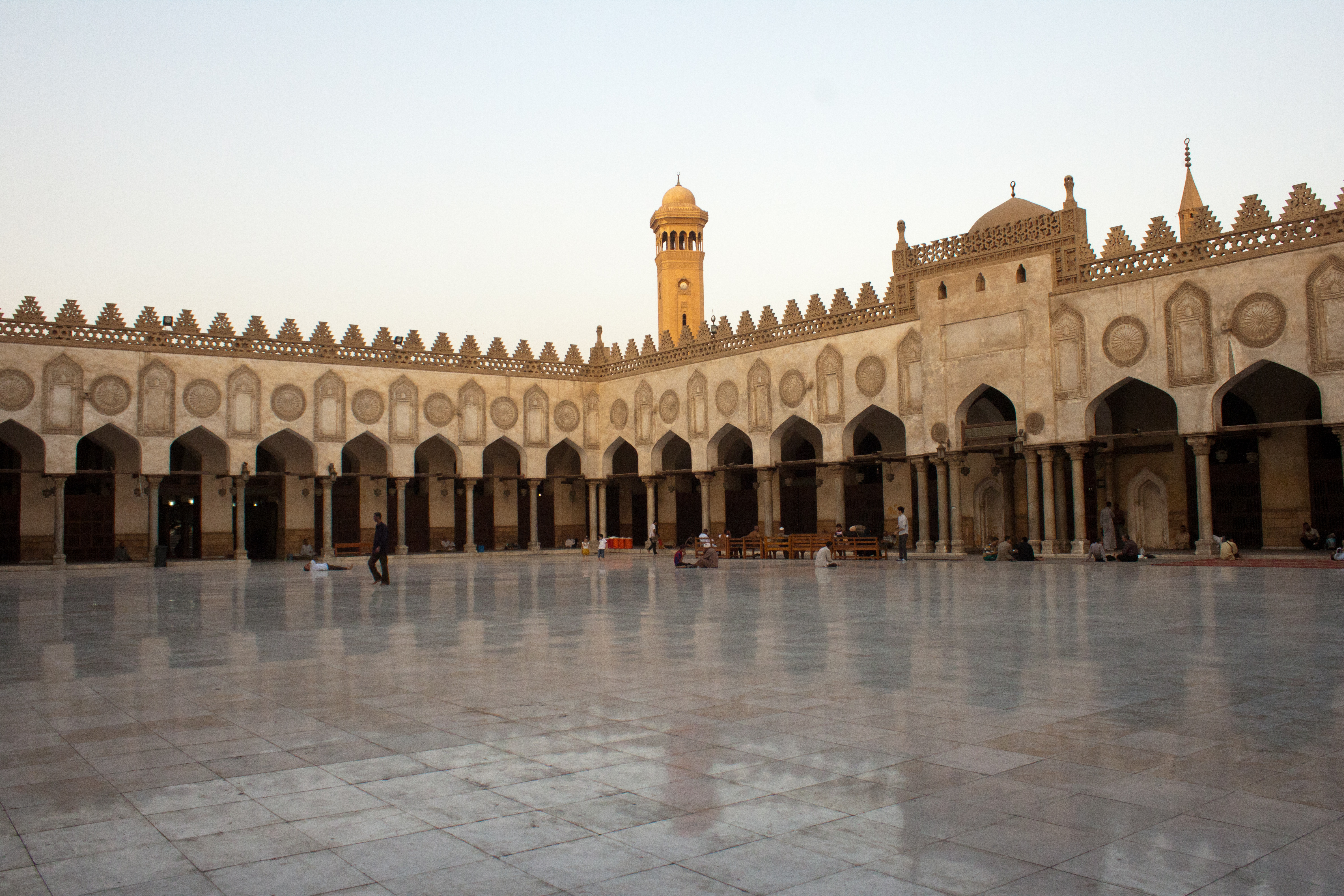 Al-Azhar Mosque